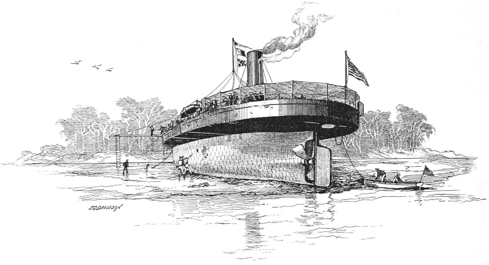 The monitor USS Montauk beached for repairs.